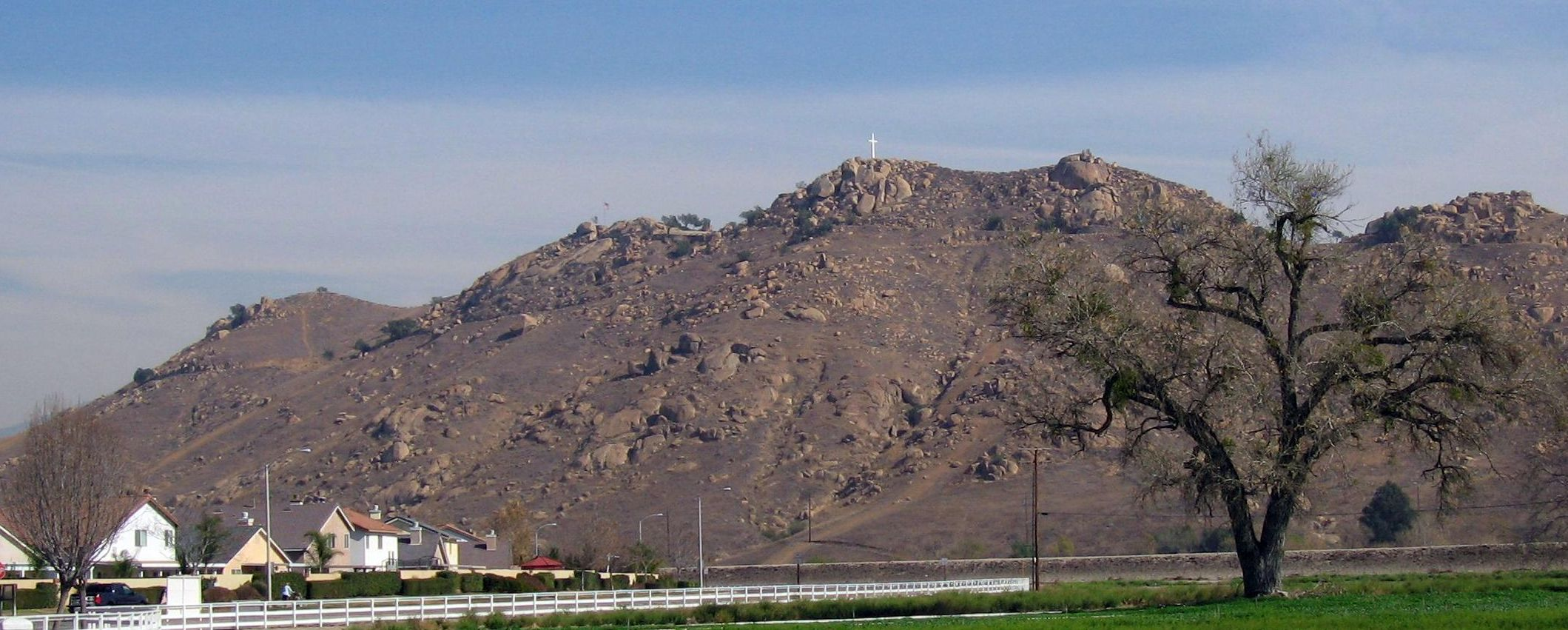 Mount Rubidoux — in the City of Riverside, California. Photo taken 6 Feb 2007 from Rubidoux, Riverside County, California by Takwish with a Canon PowerShot S70.